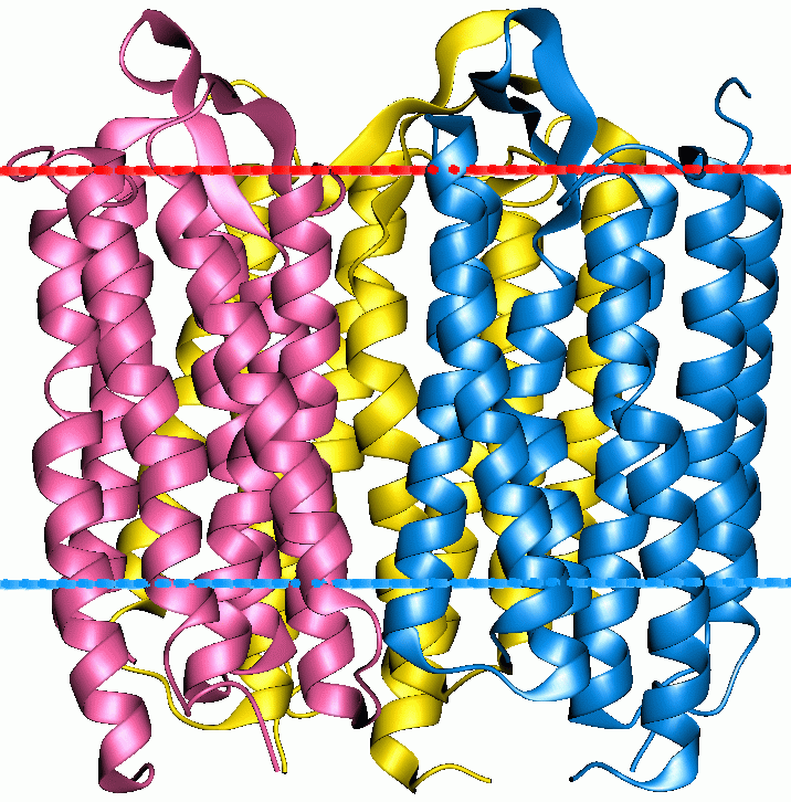 Protein image from OPM database